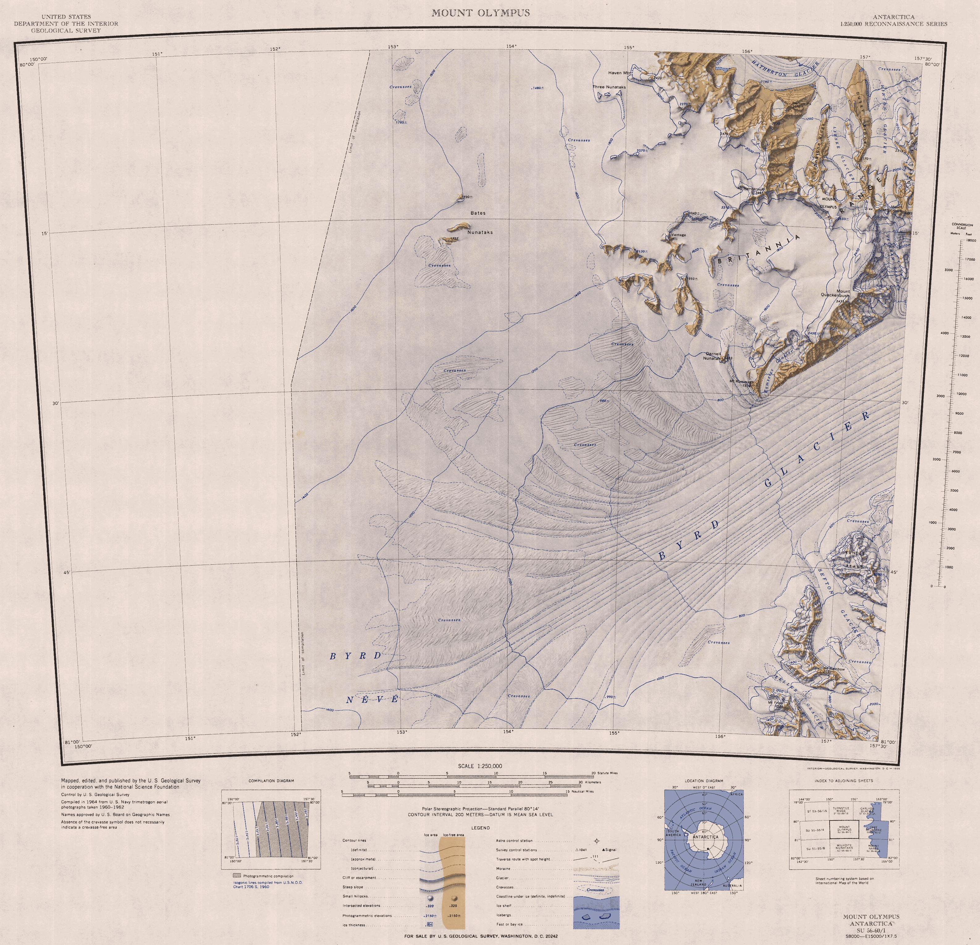 Map of Antarctica by the United States Antarctic Resource Center of the US Geological Society.